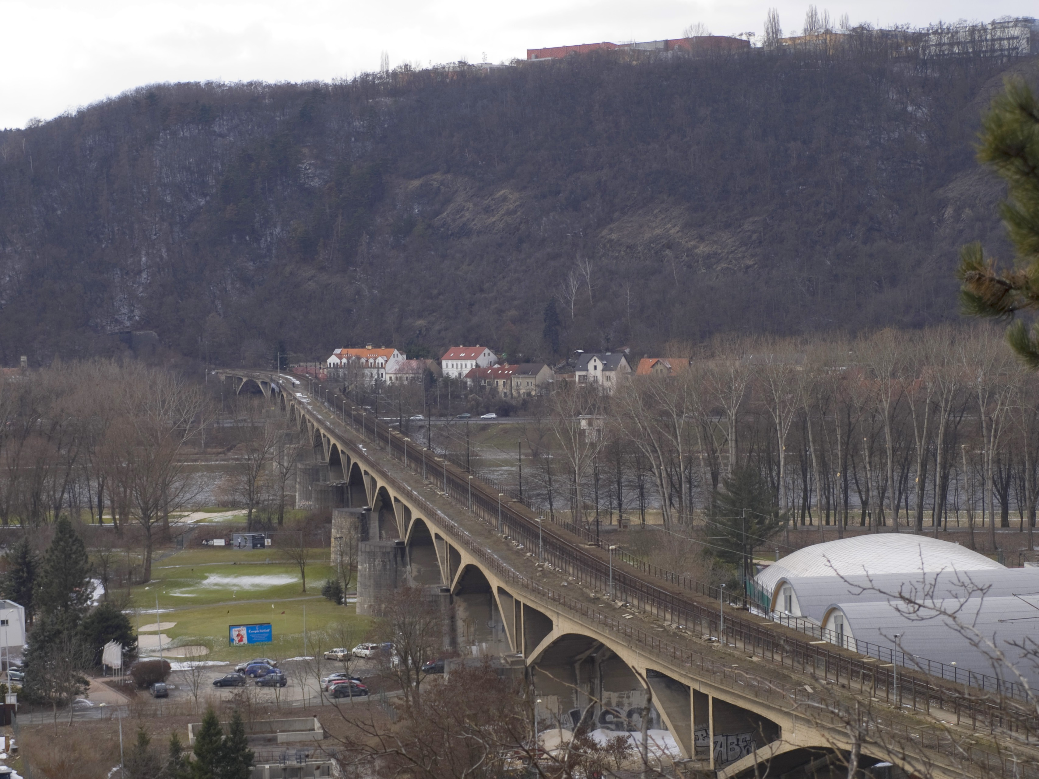 Railway bridge Braník – Malá Chuchle, Prague